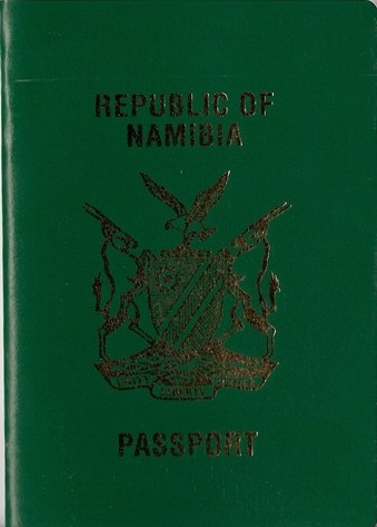 Namibian passport cover